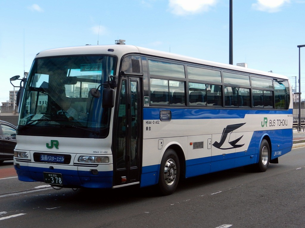 JR bus Tohoku Mitsubishi Fuso Aero bus (KL-MS86MP)Highwaybus "Yodel"(Morioka-Hirosaki)